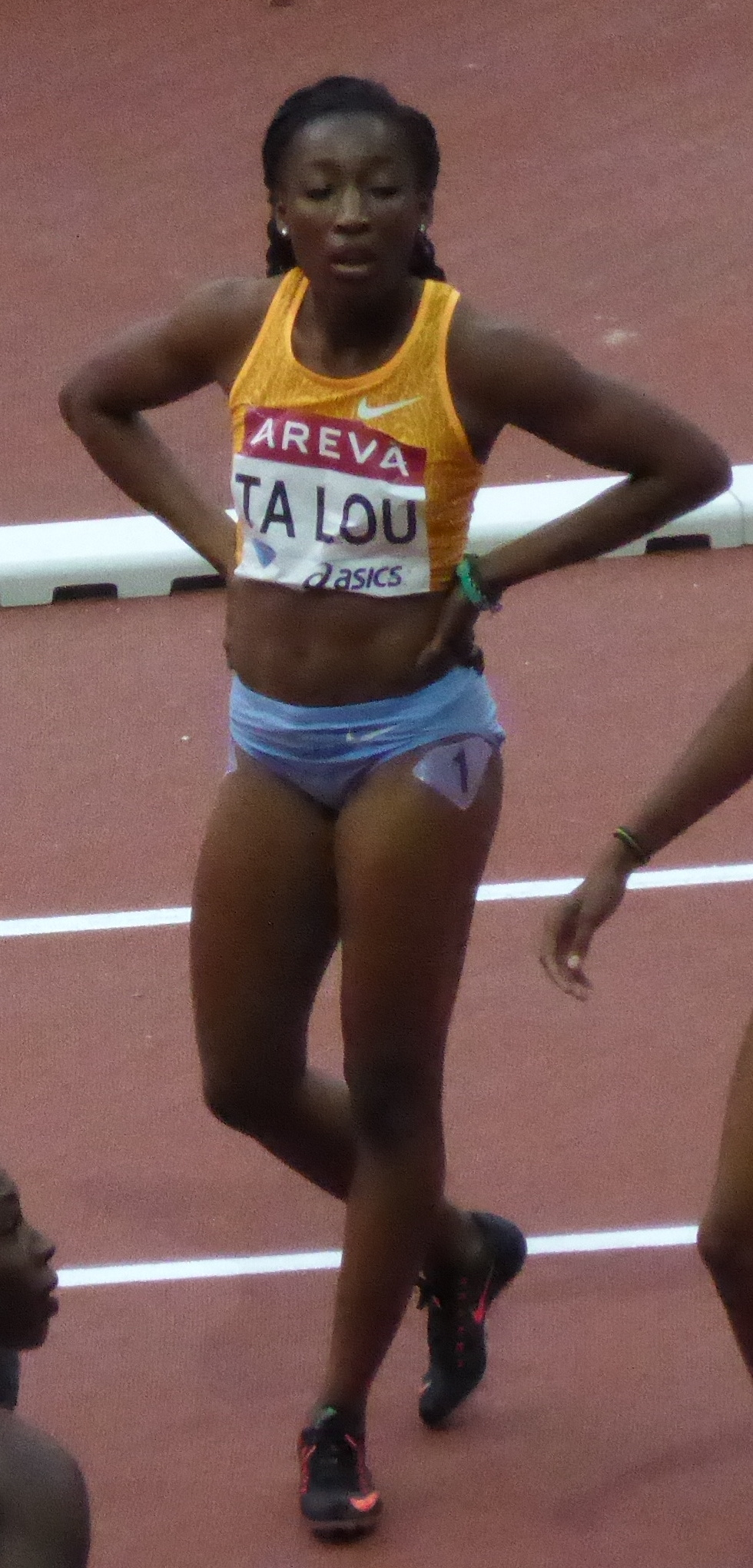 Marie Josée Ta Lou at the 2015 Meeting Areva, Stade de France, Paris.